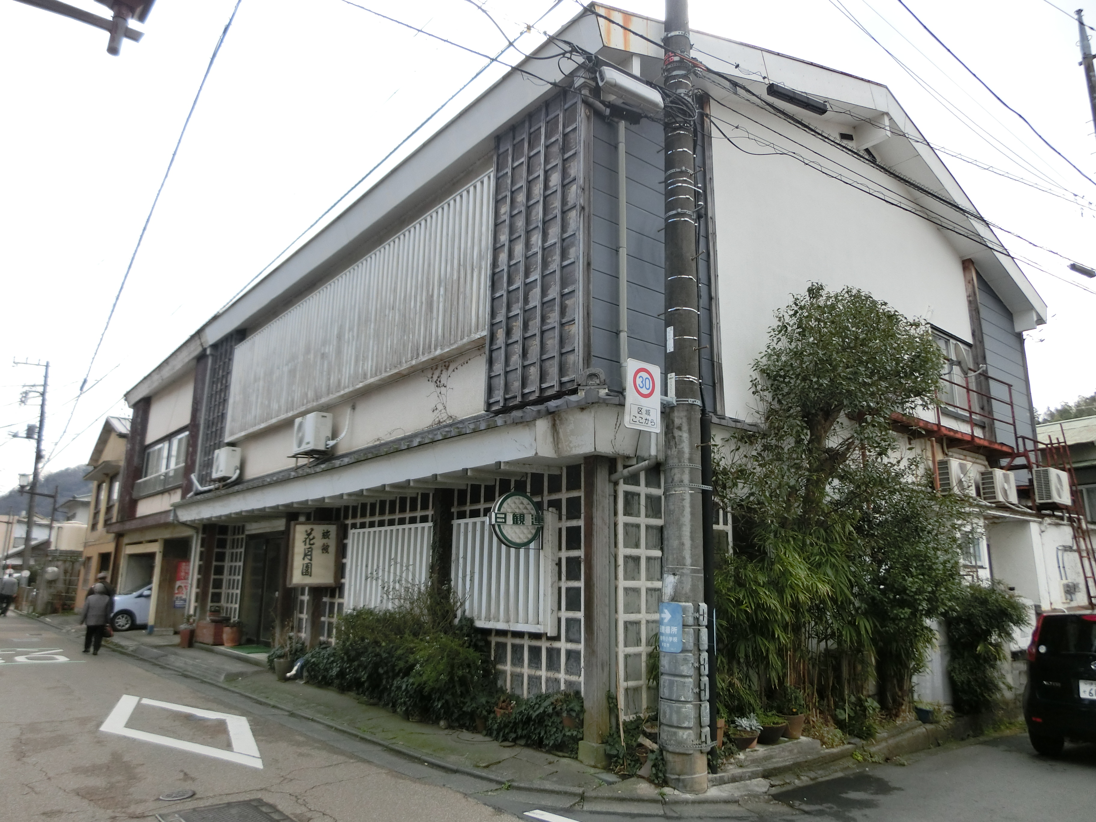 Kagetsu-en (Ryokan)